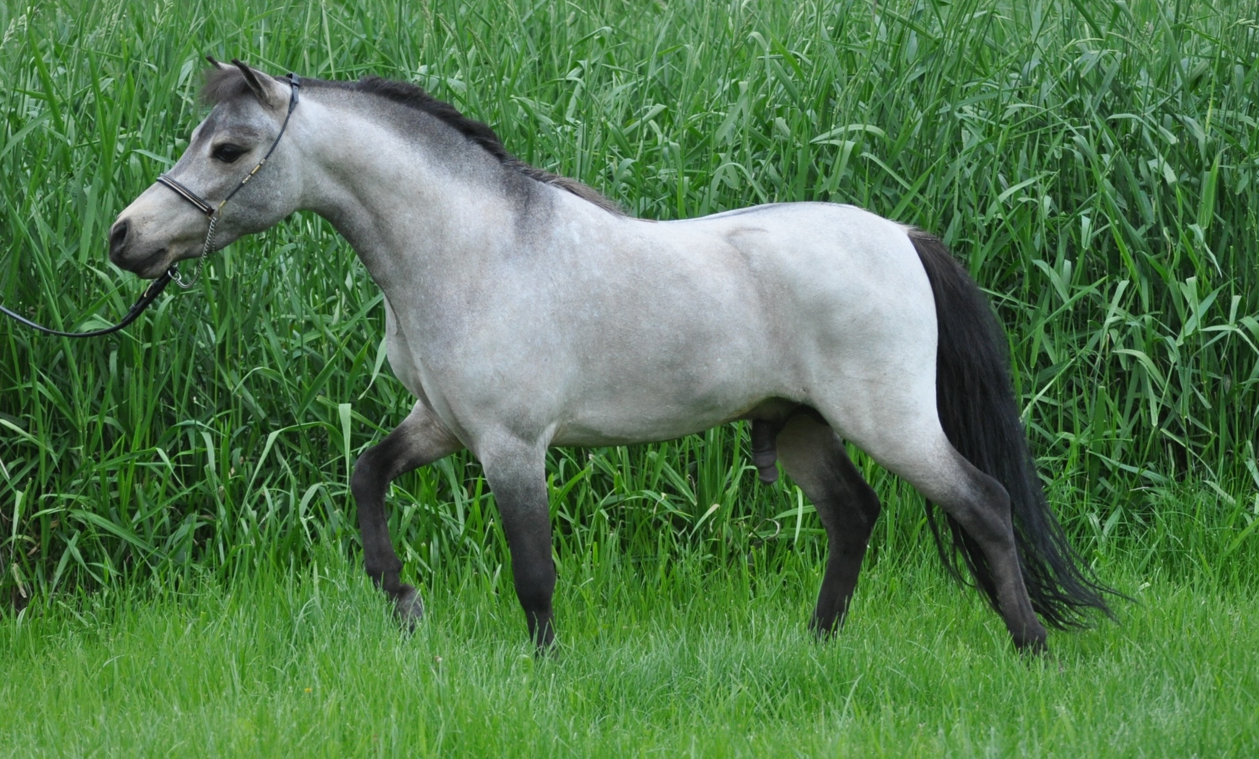 American Miniature Horse stallion Zephyr Woods Prince Charming. This buckskin horse is registered in the American Miniature Horse Association registry (AMHA A187099) and in the American Miniature Horse Registry (AMHR 290901T)[1].